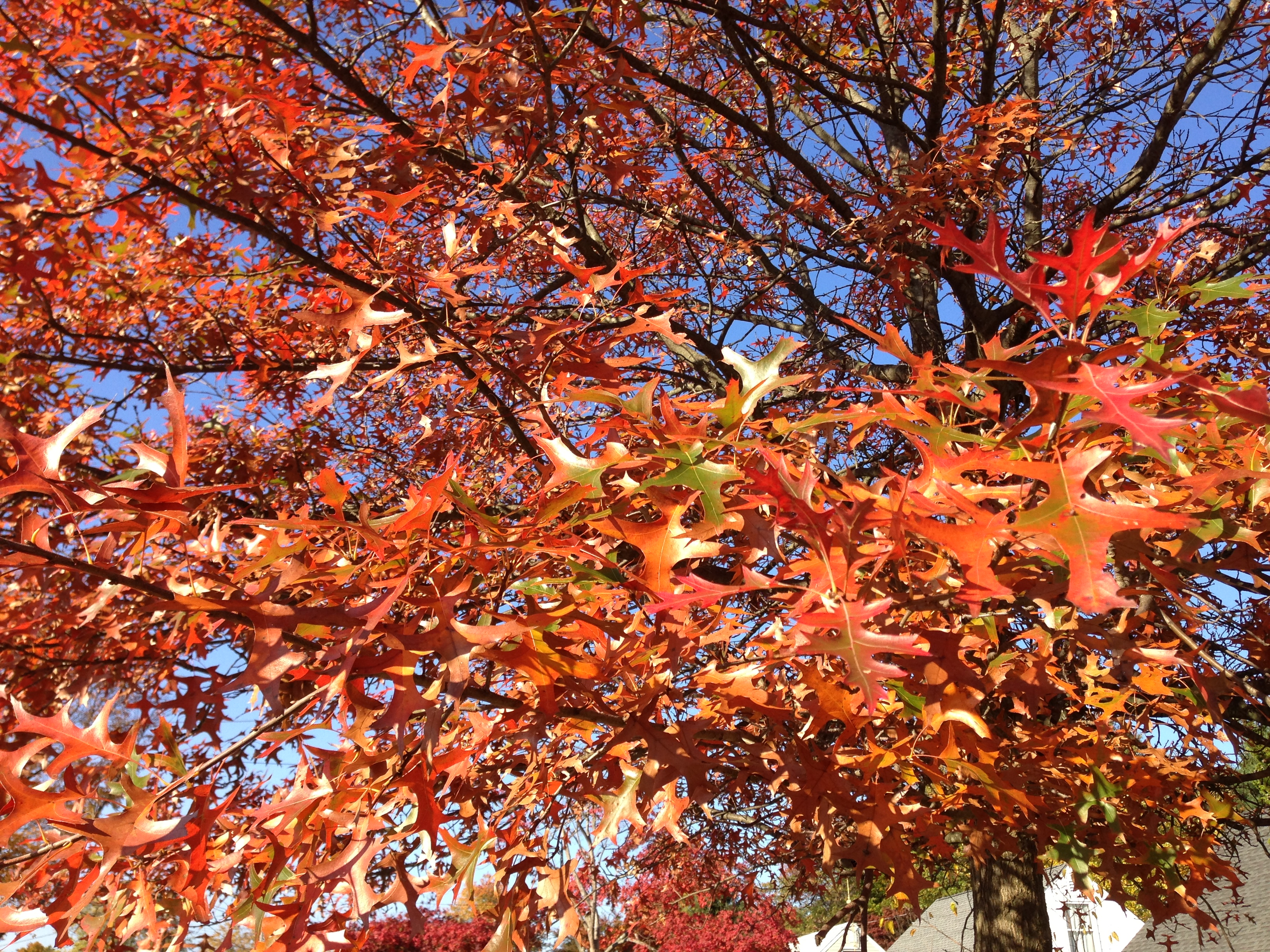 Pin Oak foliage during autumn along Dunmore Avenue in Ewing, New Jersey